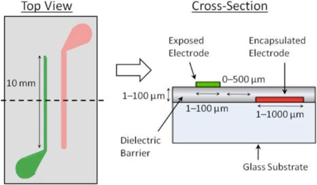 Schematic of a microscale dielectric barrier discharge (DBD) plasma actuator where the gap between plasma actuator electrodes has been decreased as compared to the gap in conventional DBD plasma actuator designs.